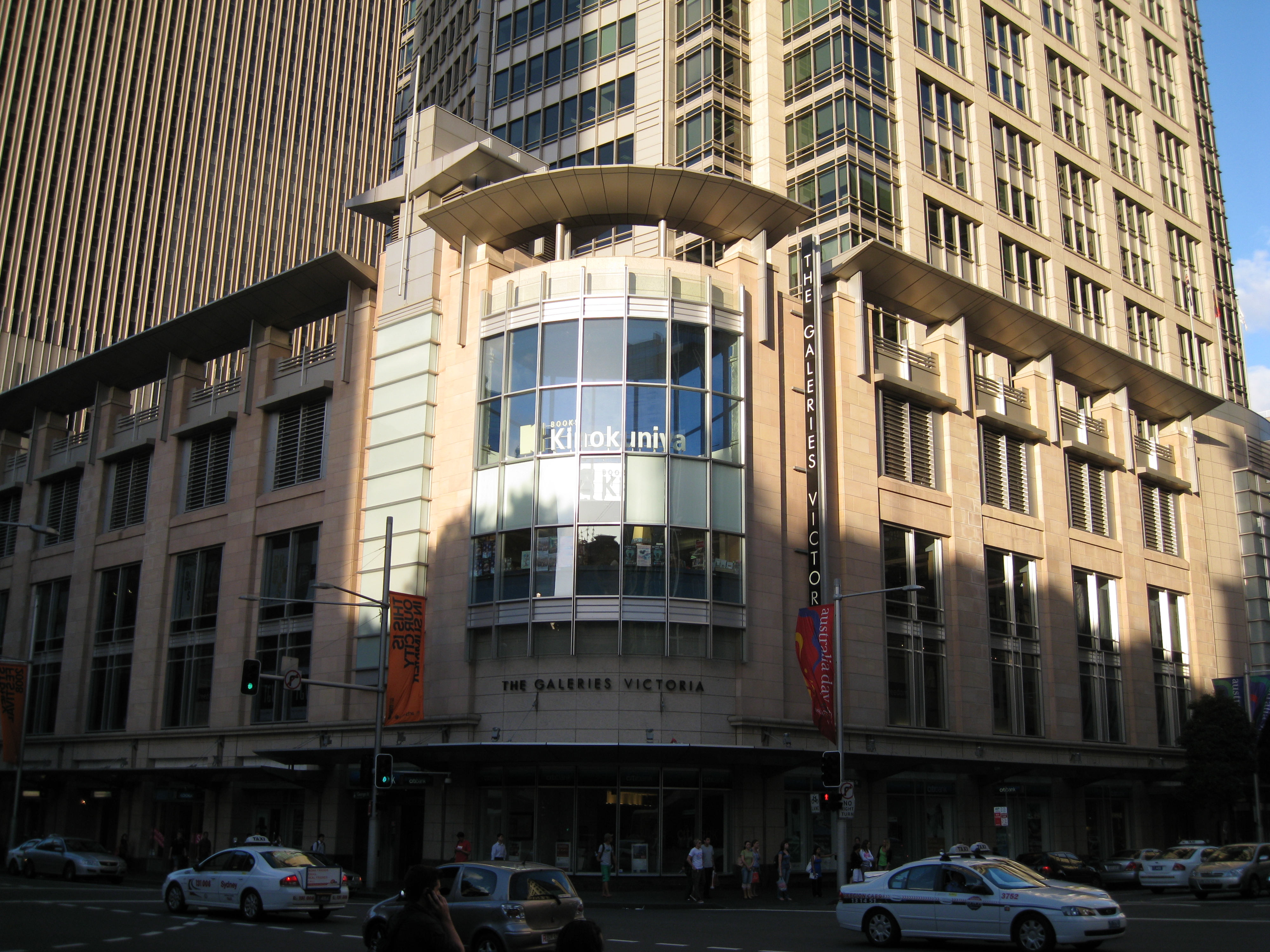 The Galleries Victoria, Sydney